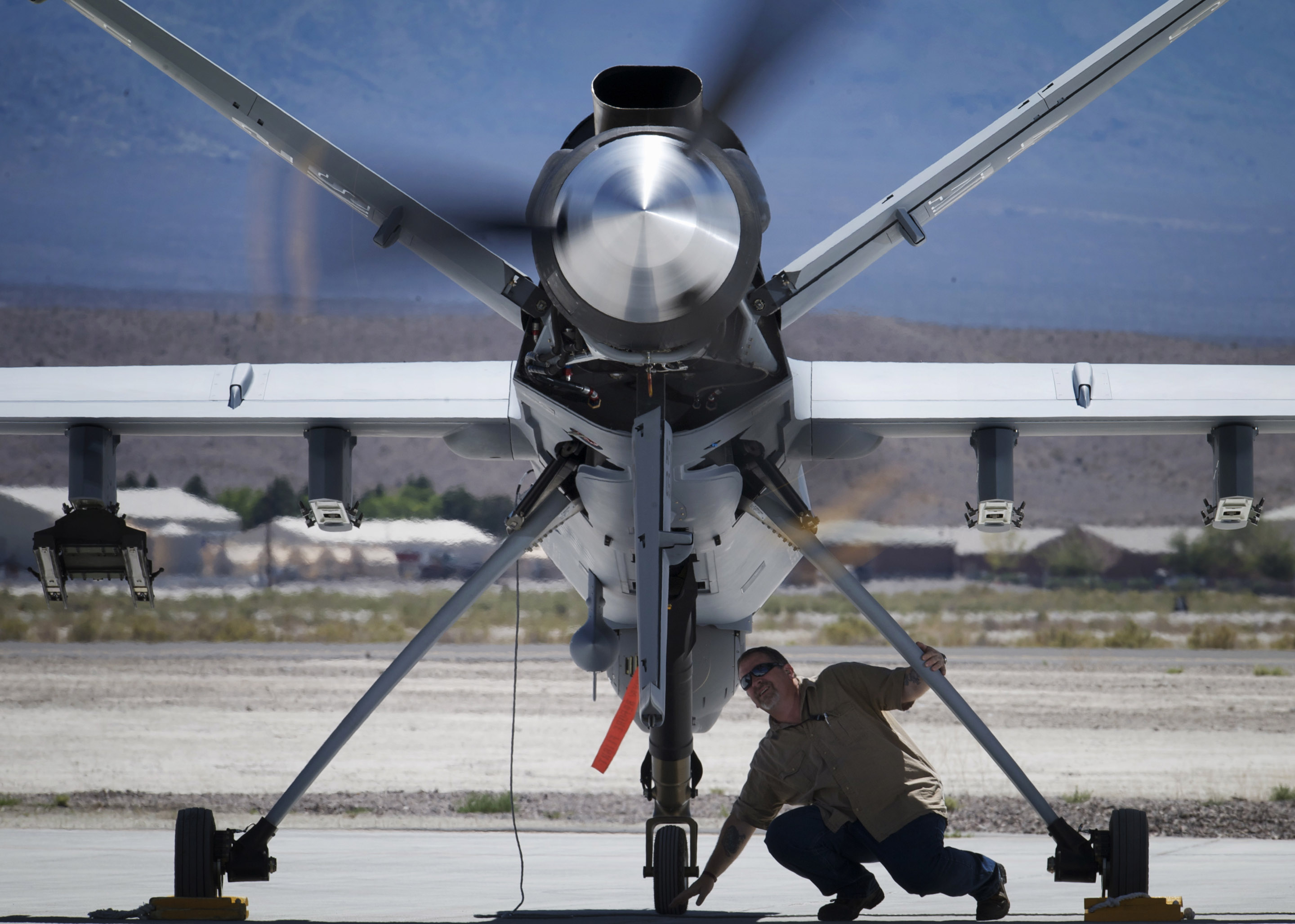 Mr. Marty Anderson, checks the turboprop engine of the MQ-9 Reaper, during an operations check at Creech Air Force Base, NV on June 19, 2008. Mr. Anderson is an instructor with Air Force Engineering and Technical Services and supports the training of new crew chiefs and provides technical expertise at Creech.